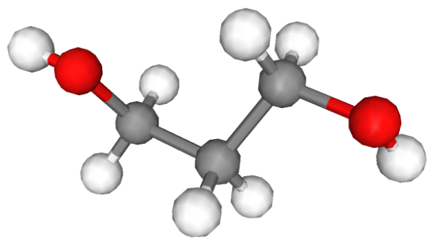 A ball and stick model of the molecule 1,3-Propanediol (CAS 504-63-2)